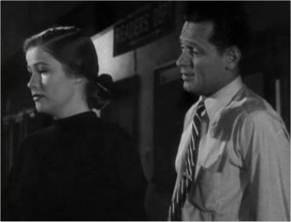 Screenshot taken by me (Icea) from the trailer to the movie Sunset Blvd.